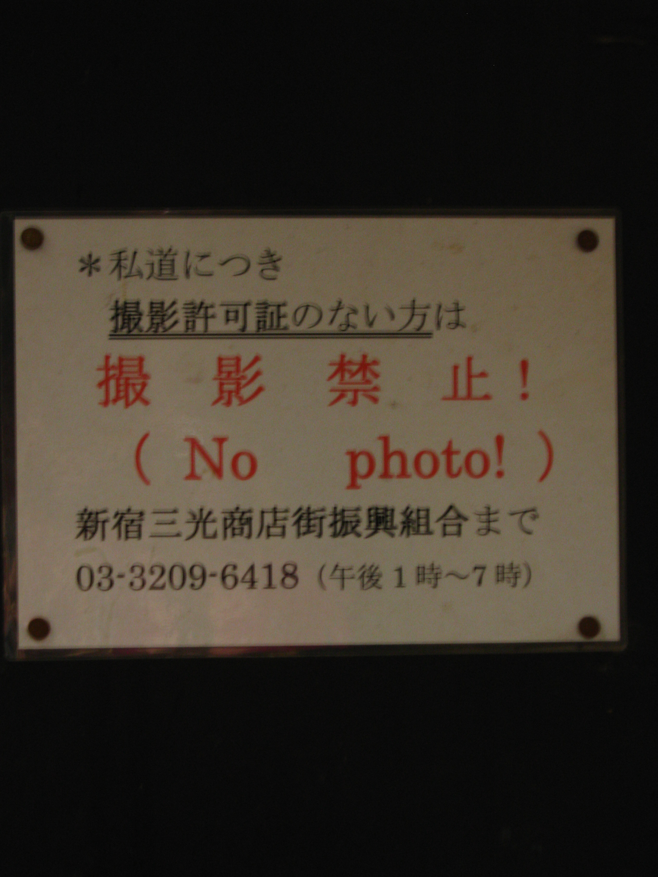 Golden Gai